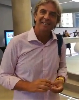 Image of Mino Taveri taken from an interview licensed under Creative Commons license - Image obtained through full screen cropping and resized